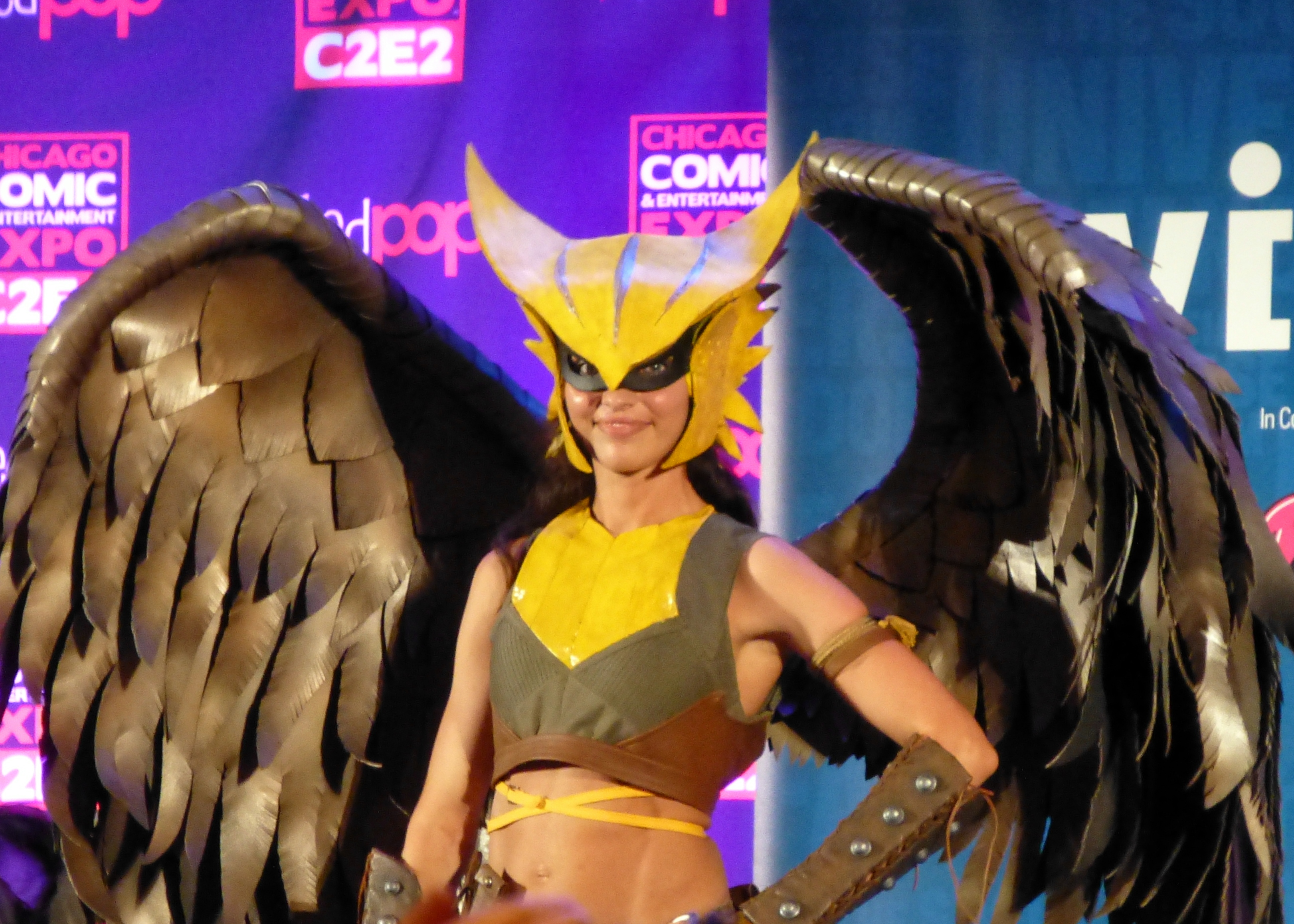 Kyra Wulfgar cosplaying as Hawkgirl (from the video game Injustice) in the First Annual Chicago Comic & Entertainment Expo (C2E2) Crown Championships of Cosplay in 2014.